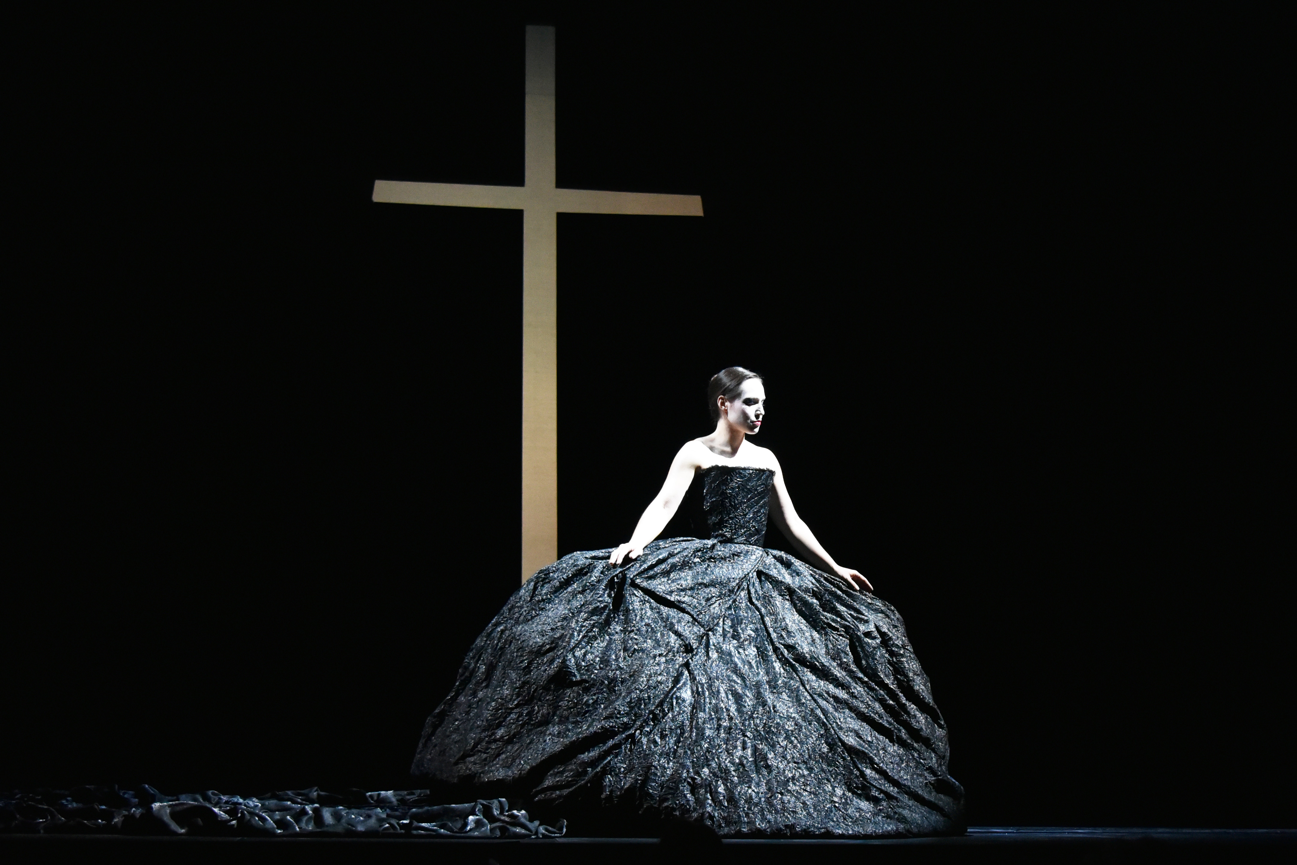 Die Schutzbefohlenen (von Elfriede Jelinek), Burgtheater Wien 2015